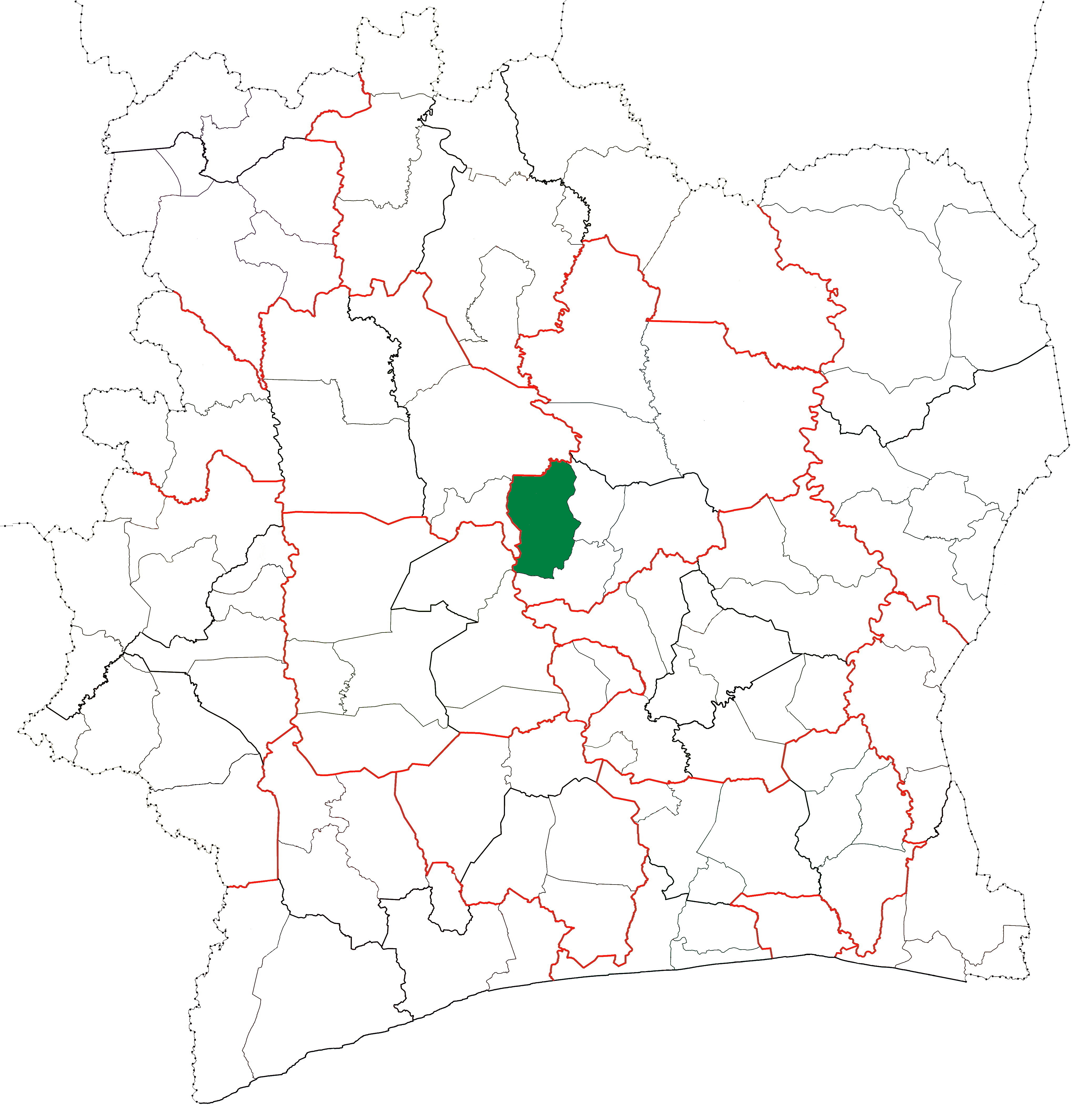 Locator map for Béoumi Department in Côte d'Ivoire.